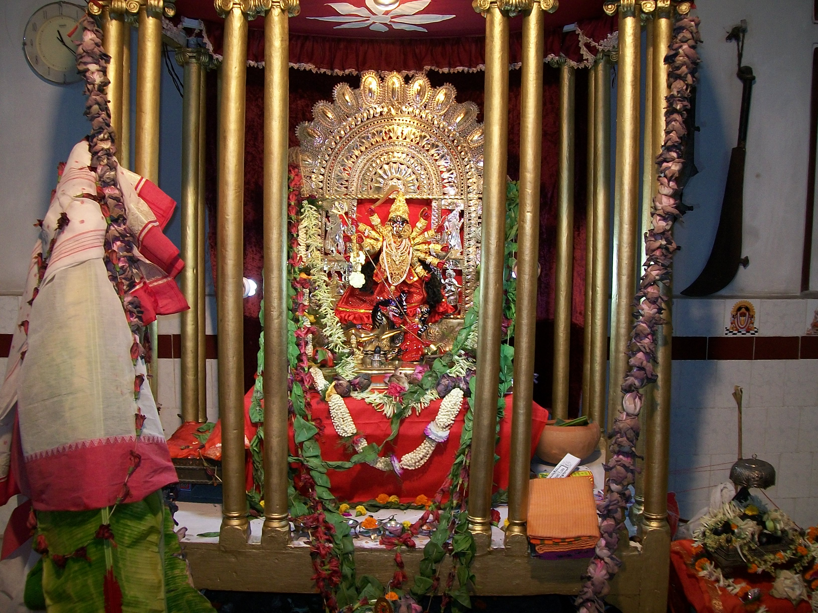 Sonar Durga in Behala